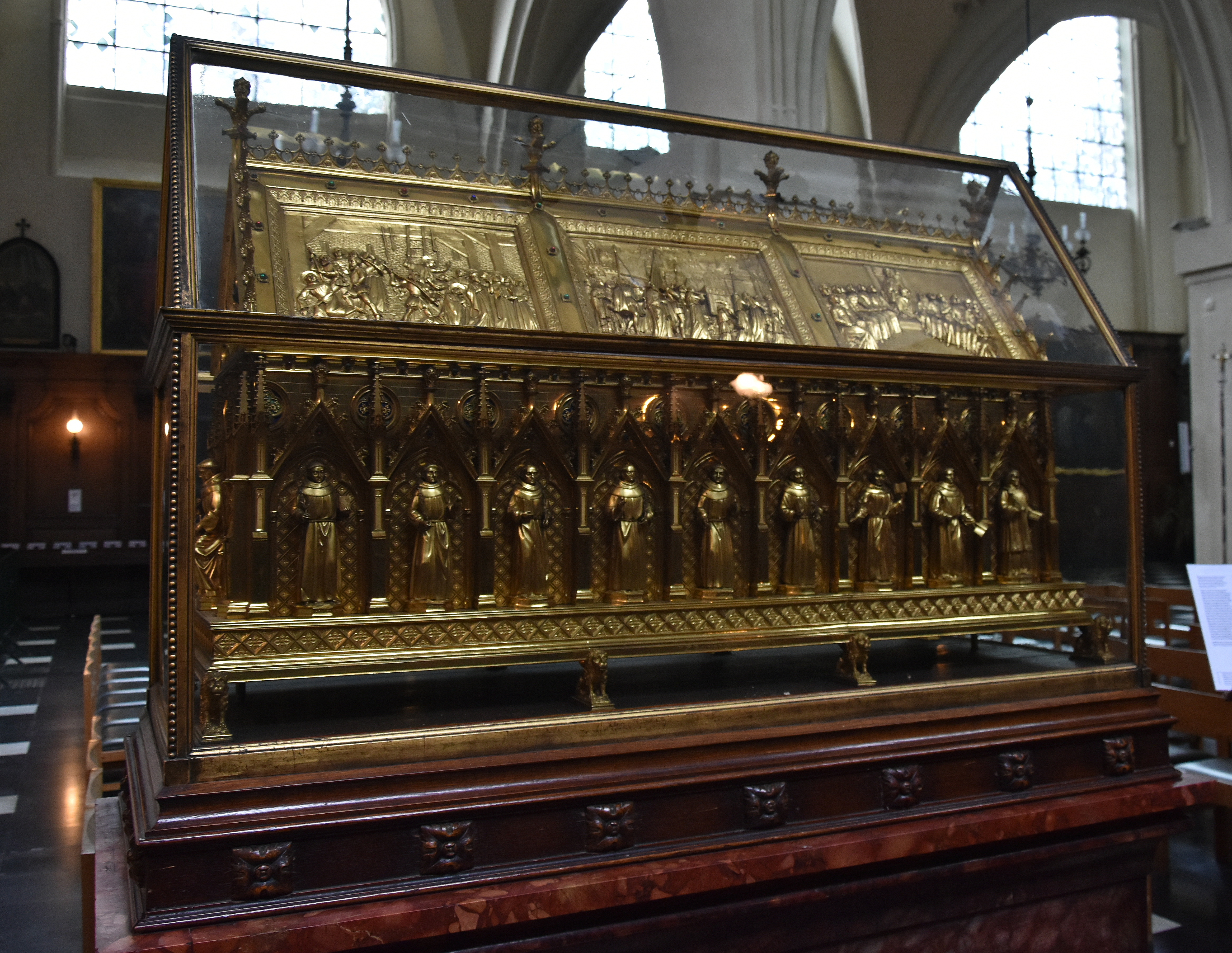 Saint Nicholas' Church, Brussels